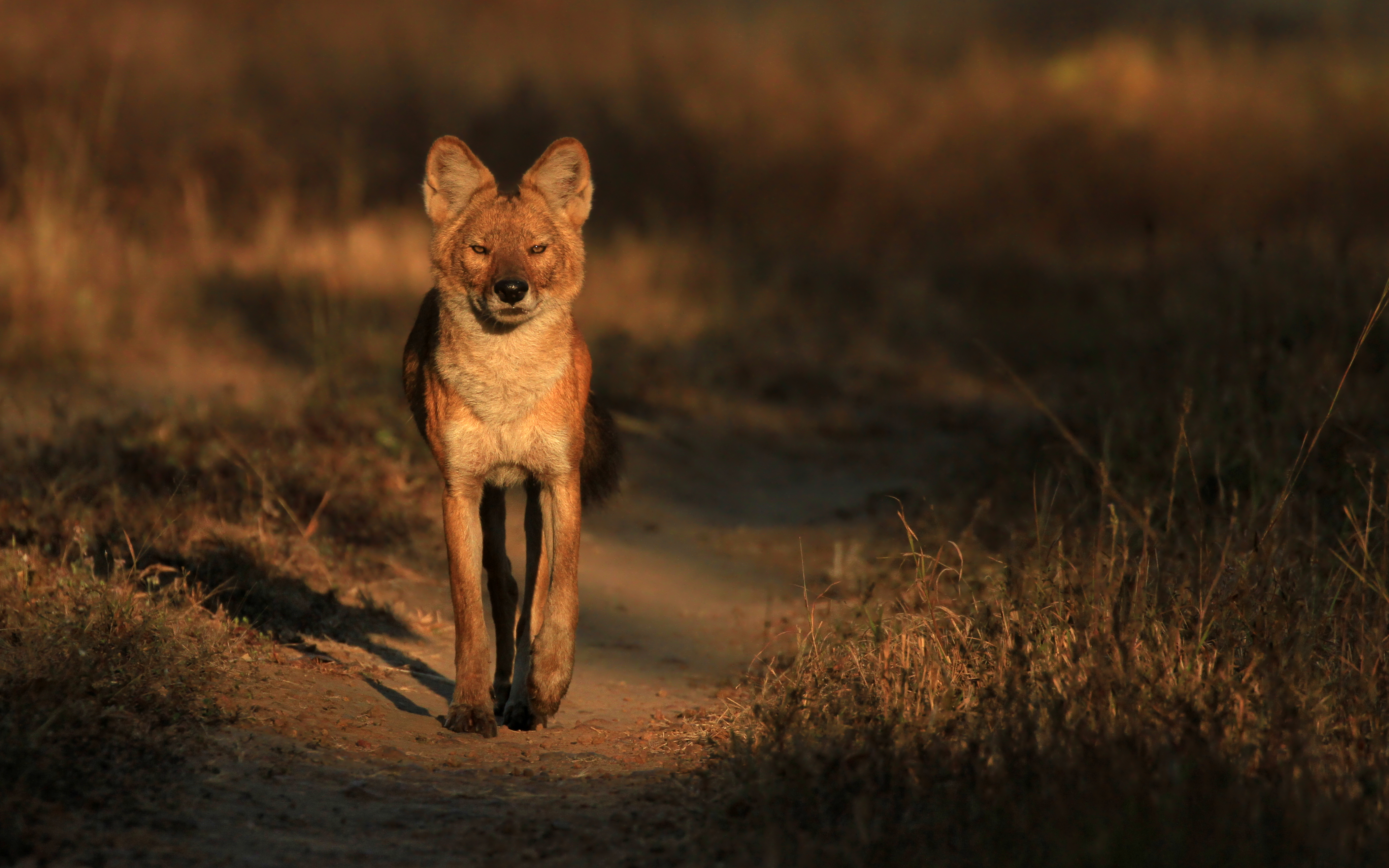 David raju_mammals_wild dog